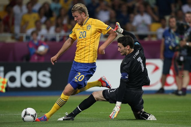 Ola Toivonen and Hugo Lloris at the Euro 2012 match Sweden-France